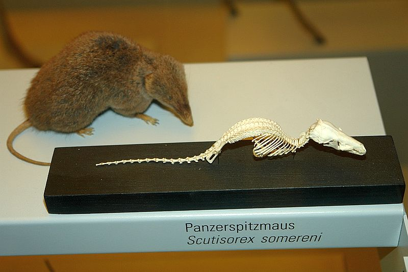 Armored shrew (Scutisorex somereni), University of Zurich Zoological Museum